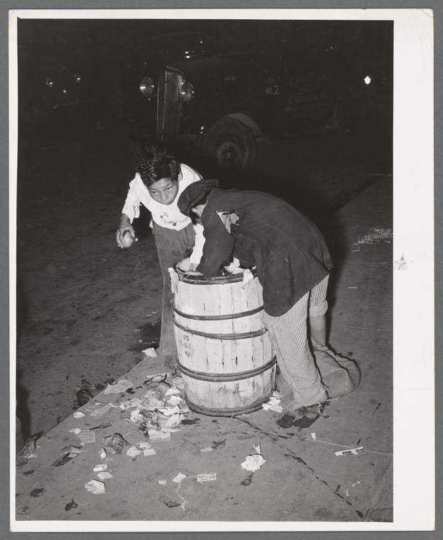 TMS ID: 65304 TMS Object Number: 032783-D Universal Unique Identifier (UUID): 3d21a3d0-0d26-0137-5f73-533b1c1bf0ea